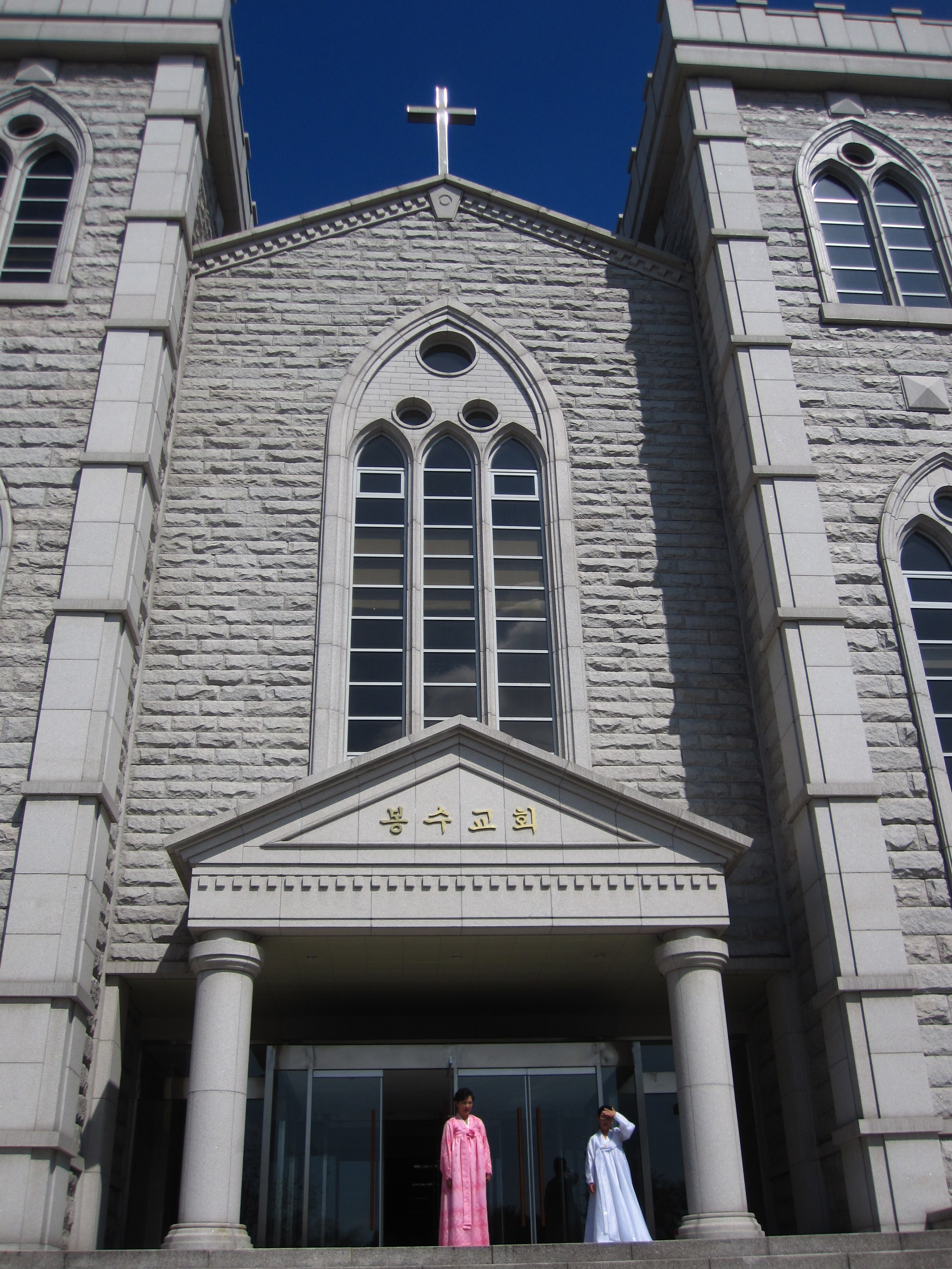 North Korea DPRK